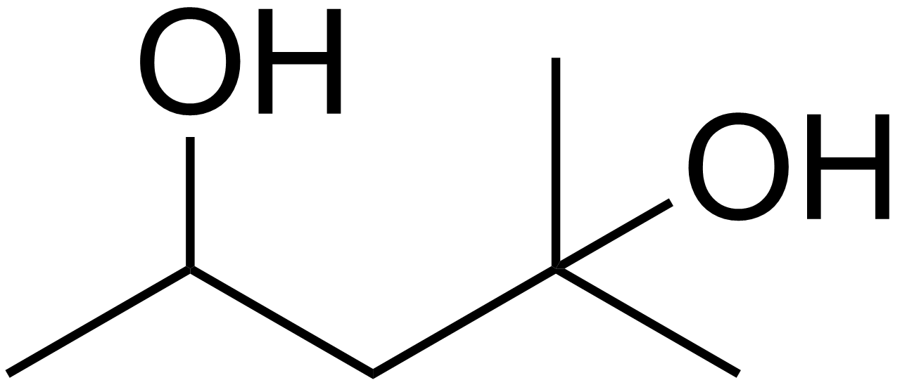 Chemical structure of 2-Methyl-2,4-pentanediol (Diolane; MPD; Hexylene glycol; 1,1,3-Trimethyltrimethylenediol; 2,4-Dihydroxy-2-methylpentane)